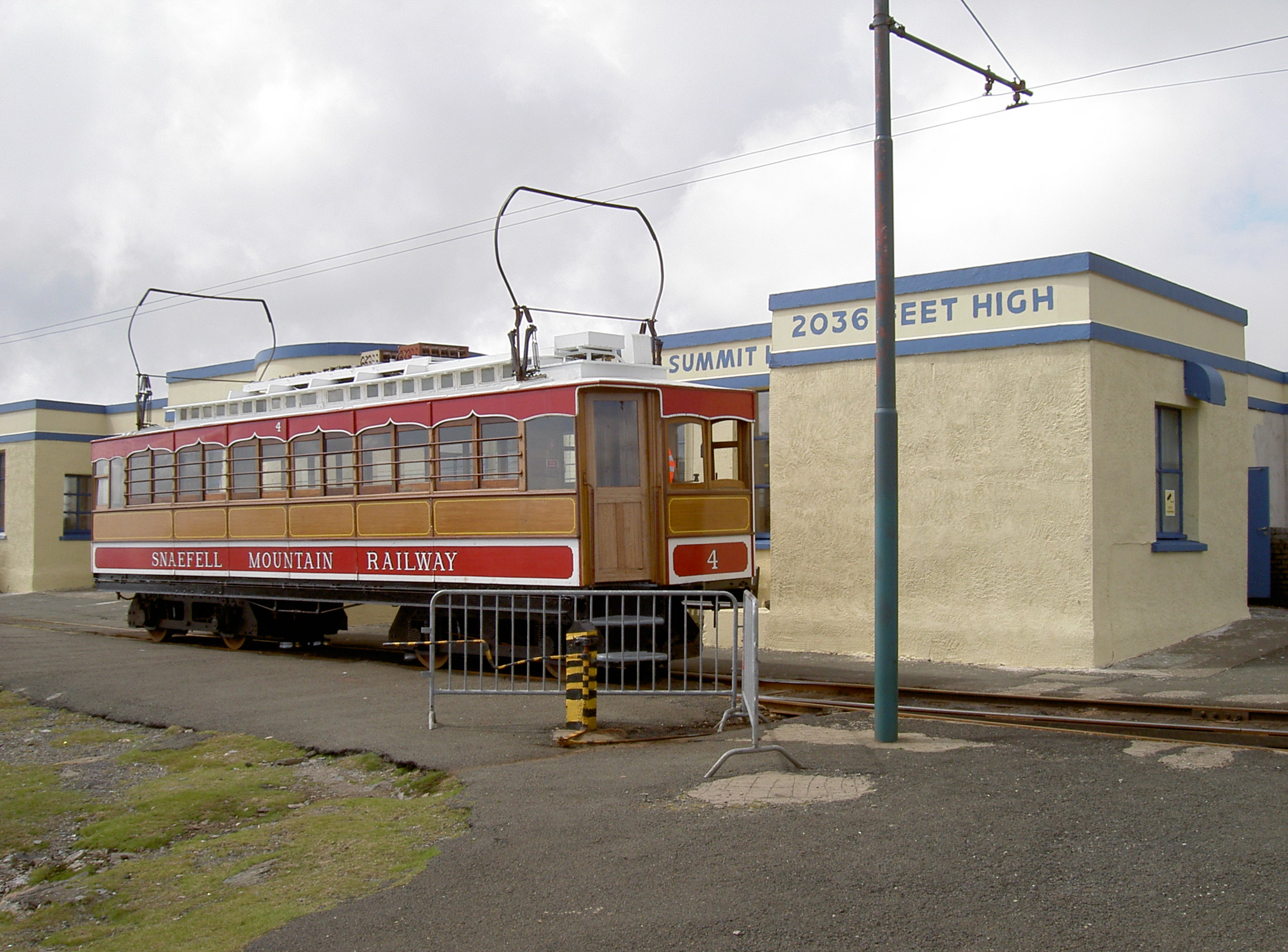 Tram at the summit station, Data from Geograph: Description: Journey's end, just in time for tea. ICBM: 54.262109078413, -4.4627857752909 Location: (about 0 km from) near to Les Graham Memorial Shelter [other Features], Isle of Man, Great Britain.